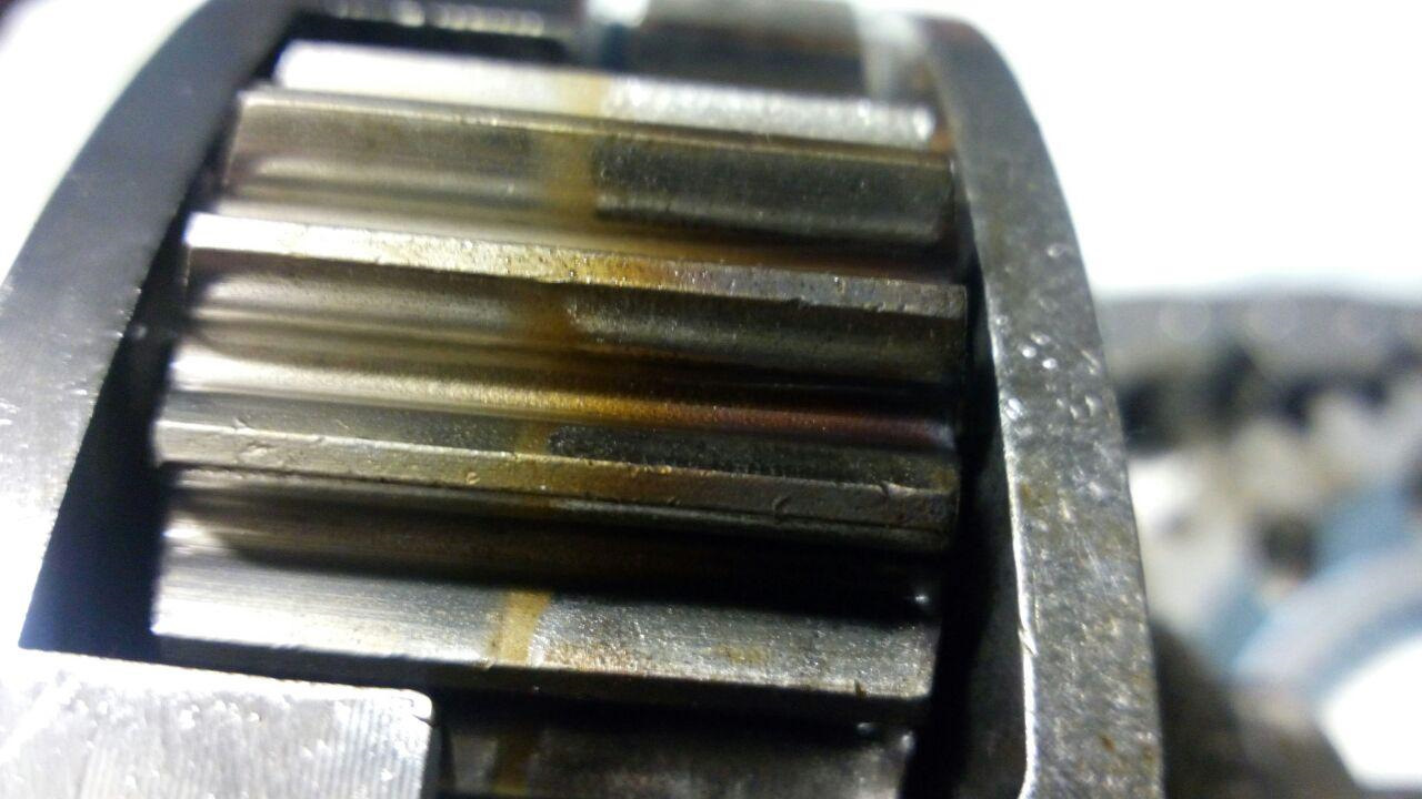 The NV-242 transfer case differential satelite is grinding by the abrasive parts in oil.